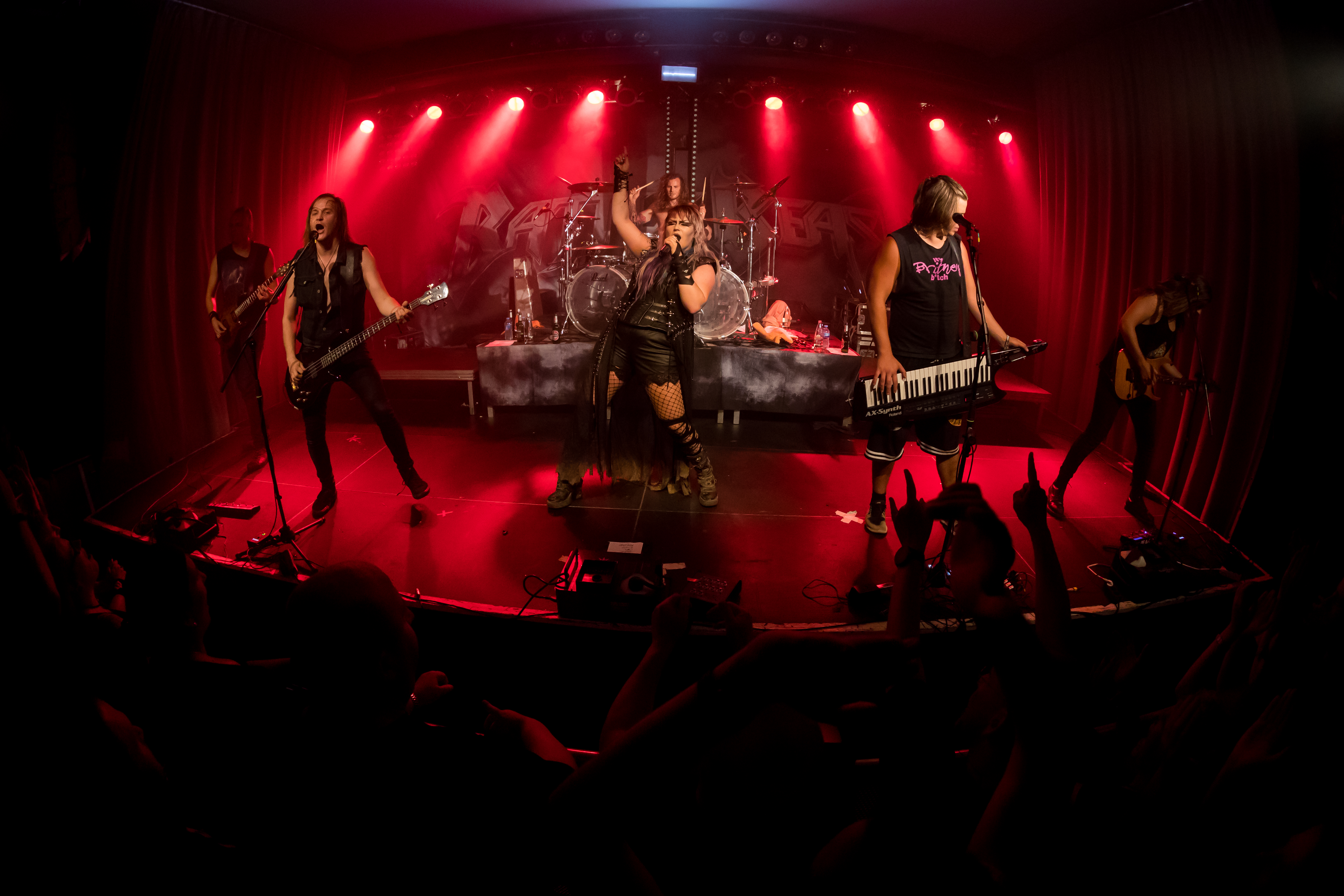 Battle Beast during Battle Beast at MS Connexion Complex, Mannheim, Baden-Württemberg, Germany on 2017-08-23, Photo: Sven Mandel Support: Hopscotch SpiteFuel